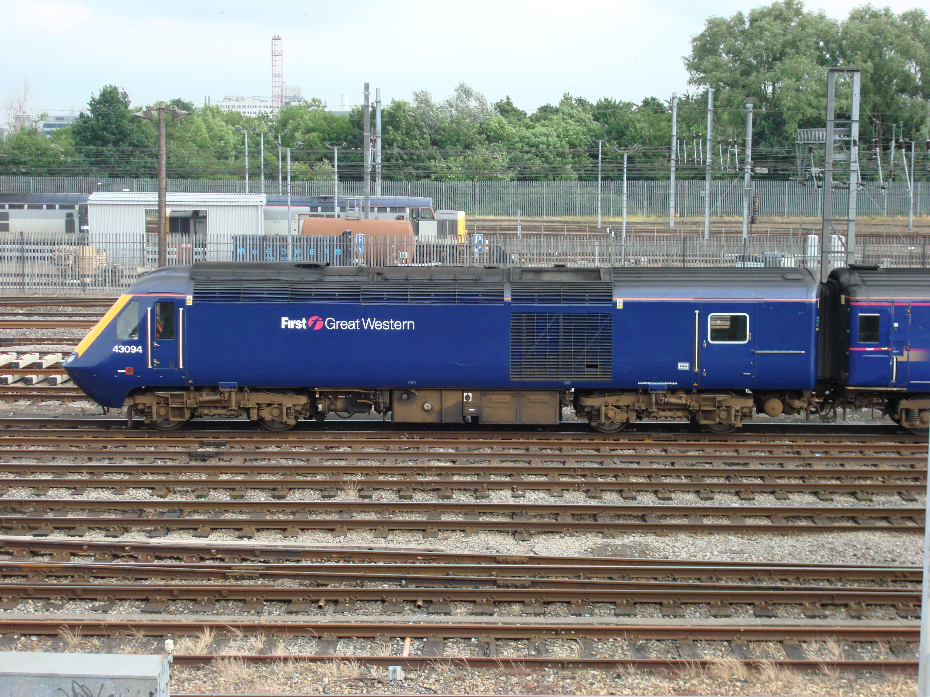 43094 at Old Oak Common